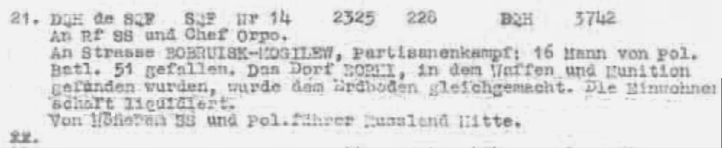 This is a decrypted message from the Nazi HSSPF (Higher SS and Police Leader) of section "Russland Mitte" (Middle Russia), describing the 'liquidation' of a town in Belarus. It was sent June 16 1942. - To: Reichsfuehrer SS (Rf SS, Heinrich Himmler) and the Chief of the Order Police (Chef Orpo, Kurt Daluege). On the Bobruisk-Mogilew road, [there was] a skirmish with partisans: 16 men from the 51st Police battalion were killed. In the town of Borki, [Unlocated. There are several towns named Borki in present day Belarus – author.] where weapons and ammunition were found, and was leveled in the usual manner. The inhabitants were liquidated. - From: Higher SS and Police Leader Central Russia (HSSPF Russland Mitte, Erich von dem Bach-Zelewski). - xx